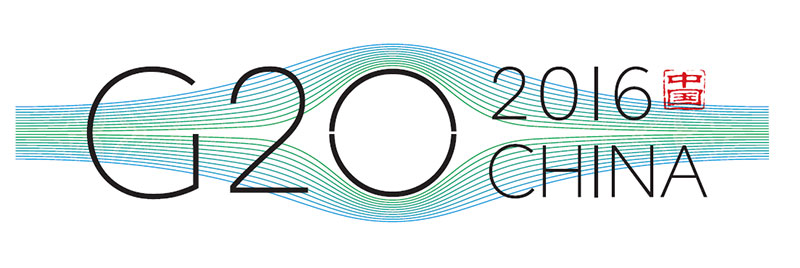 The Logo for the 2016 G20